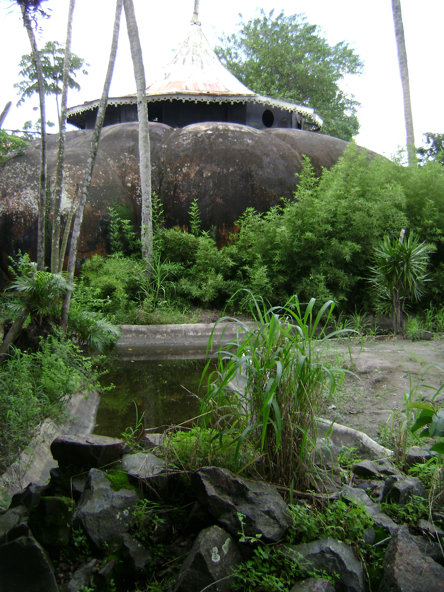 Center of Culture Amélio Amorim of Universidade Estadual de Feira de Santana.